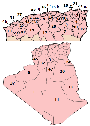 Algeria Wilayas (provinces) numbered with the official numbering scheme.